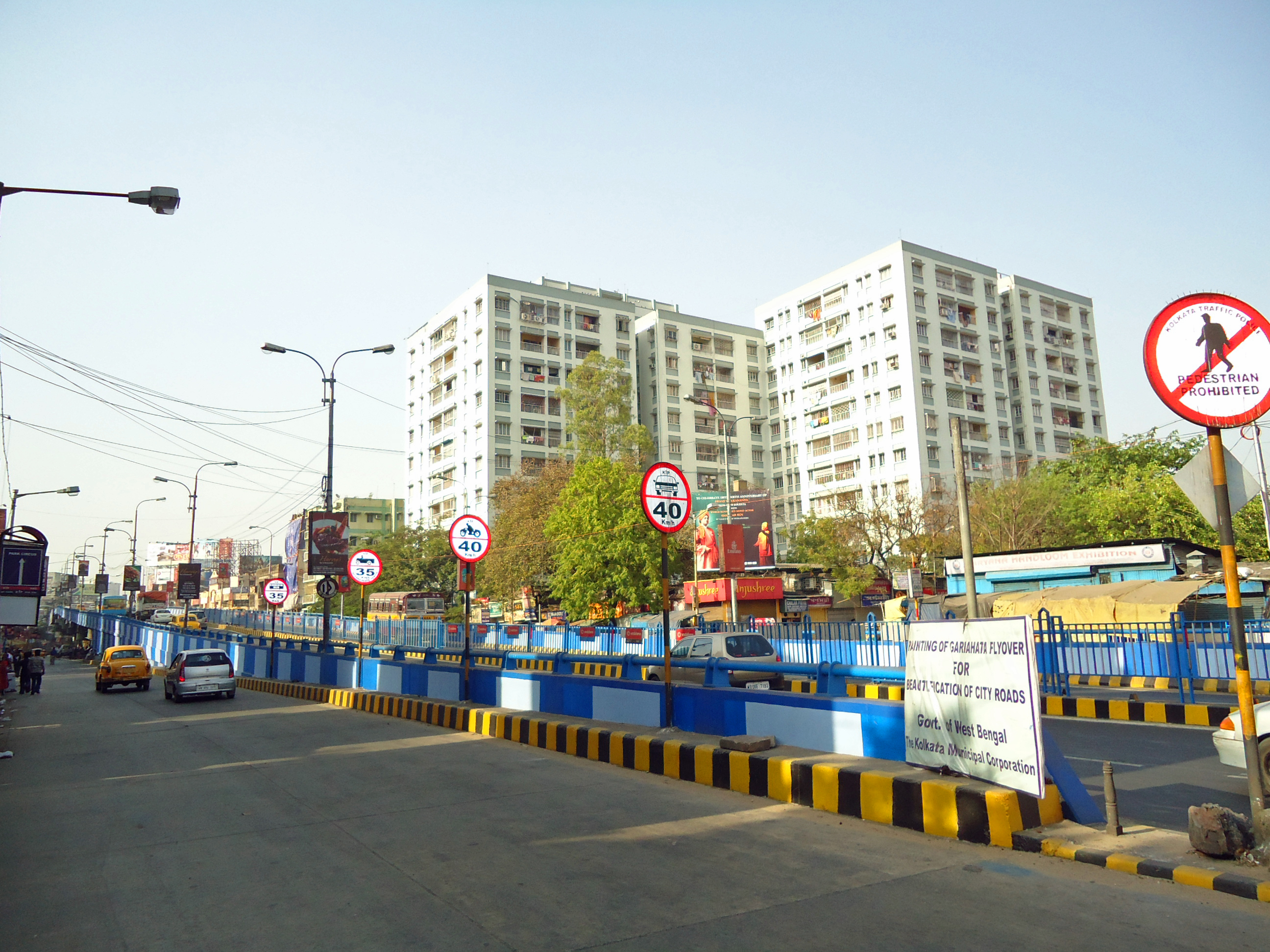 Gariahat Flyover - as viewed from its southern end. (The multistoried building in the background is Megha Mallar.)